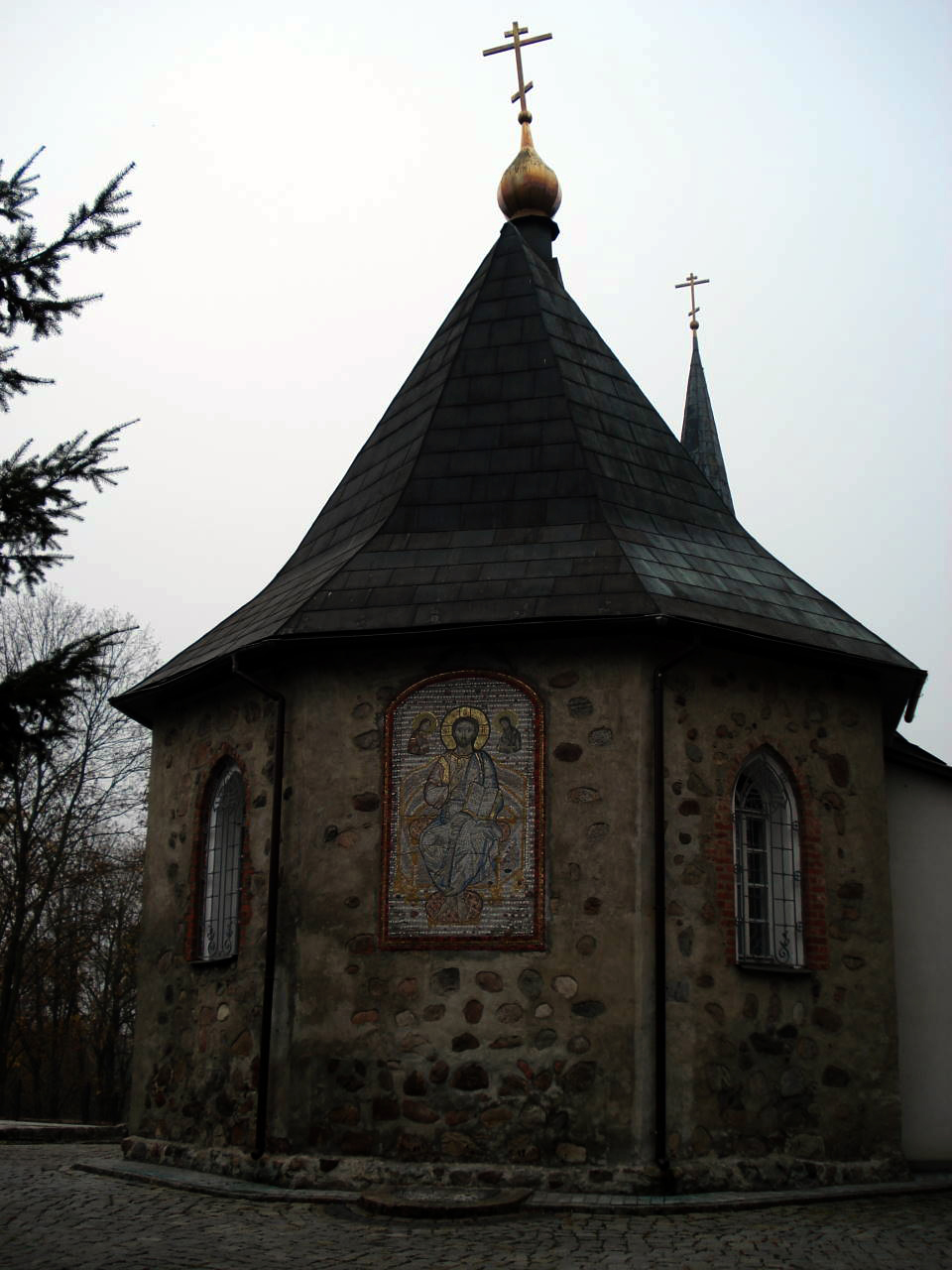 The Juditten Church in Kaliningrad, 1st H. of the 14th c. Now Russian-Orthodox St. Nicholas Church